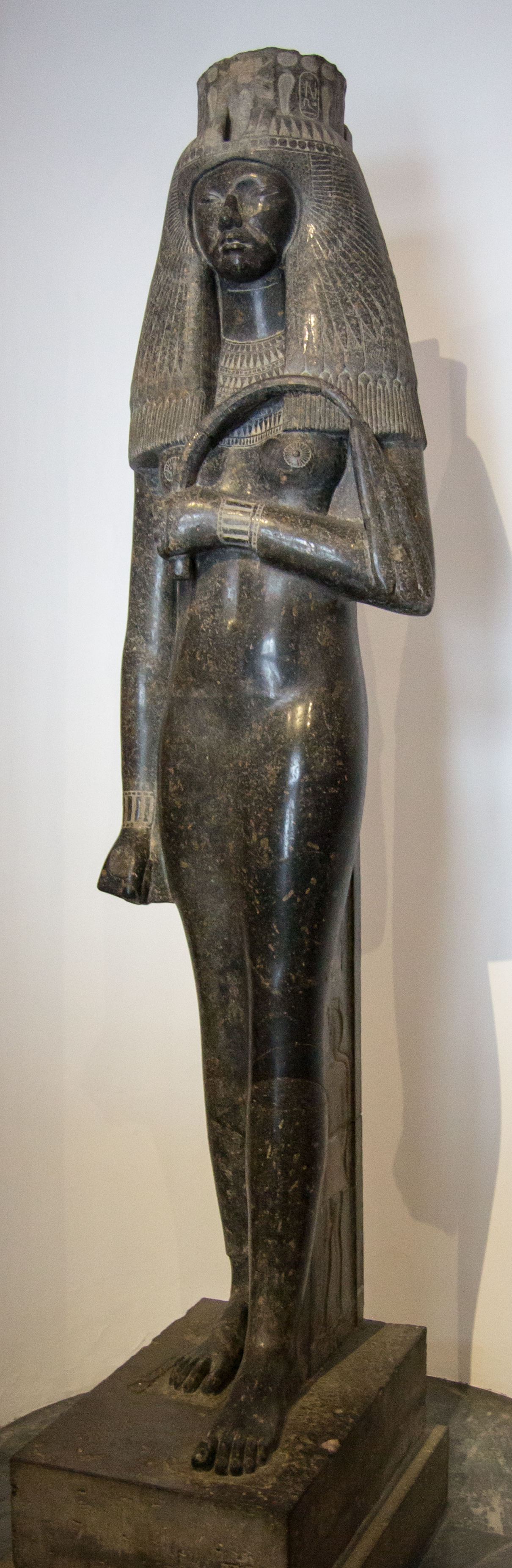 Colossal statue of queen Tuya. 2.27m tall in dark granite. On display in room V of the Gregorian Egyptian Museum. [1] Vatican Museums Native nameMusei VaticaniLocationVatican CityCoordinates41° 54′ 23″ N, 12° 27′ 16″ E Established1506Web page control : Q182955 VIAF: 141443926 ISNI: 0000 0001 0807 3165 GND: 235092-0 SUDOC: 032013795 BNF: 12312427s